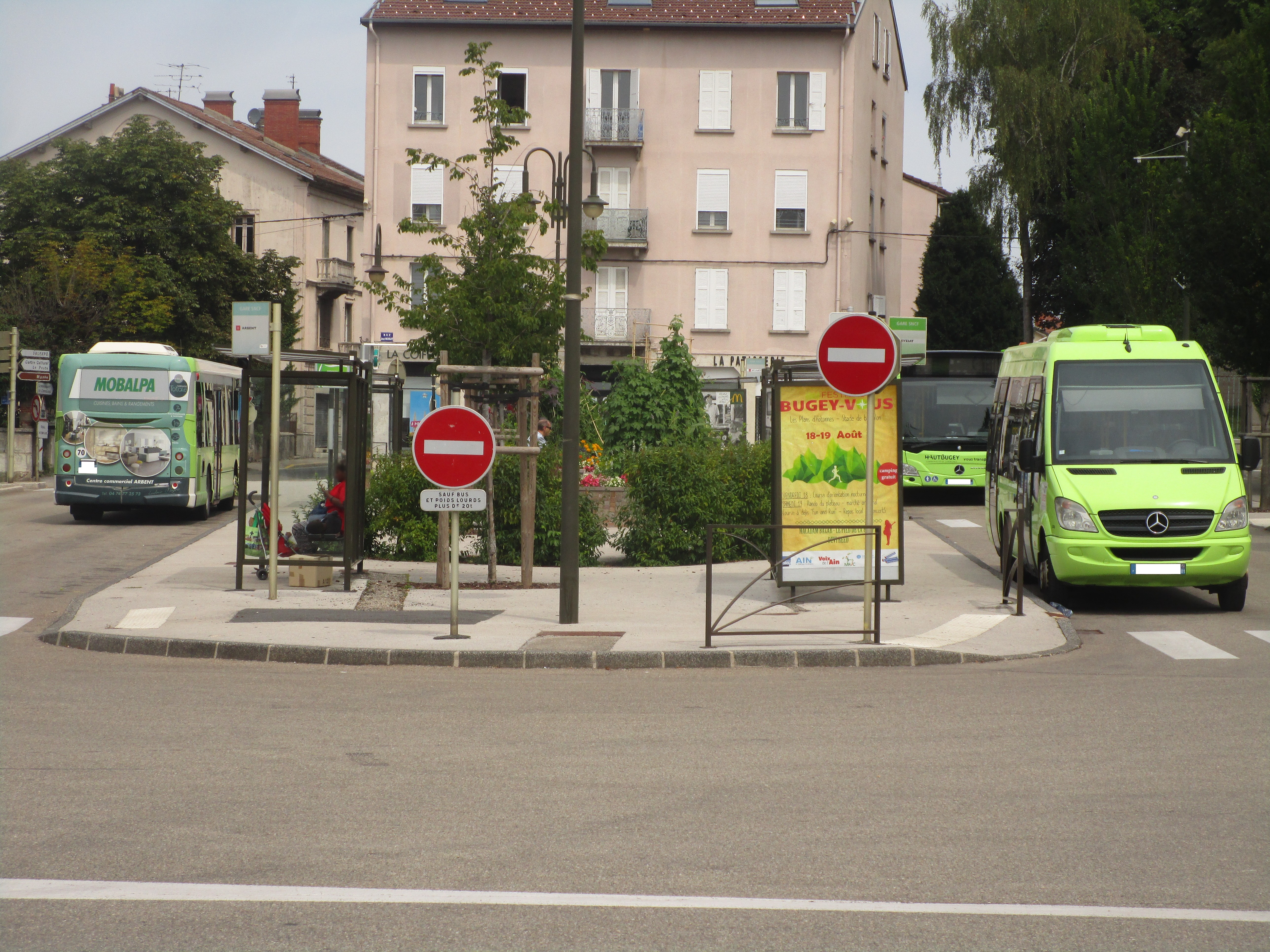 The exchange terminal Gare SNCF of the bus network Duobus, in front of the train station (Oyonnax, France), on August 16, 2017.